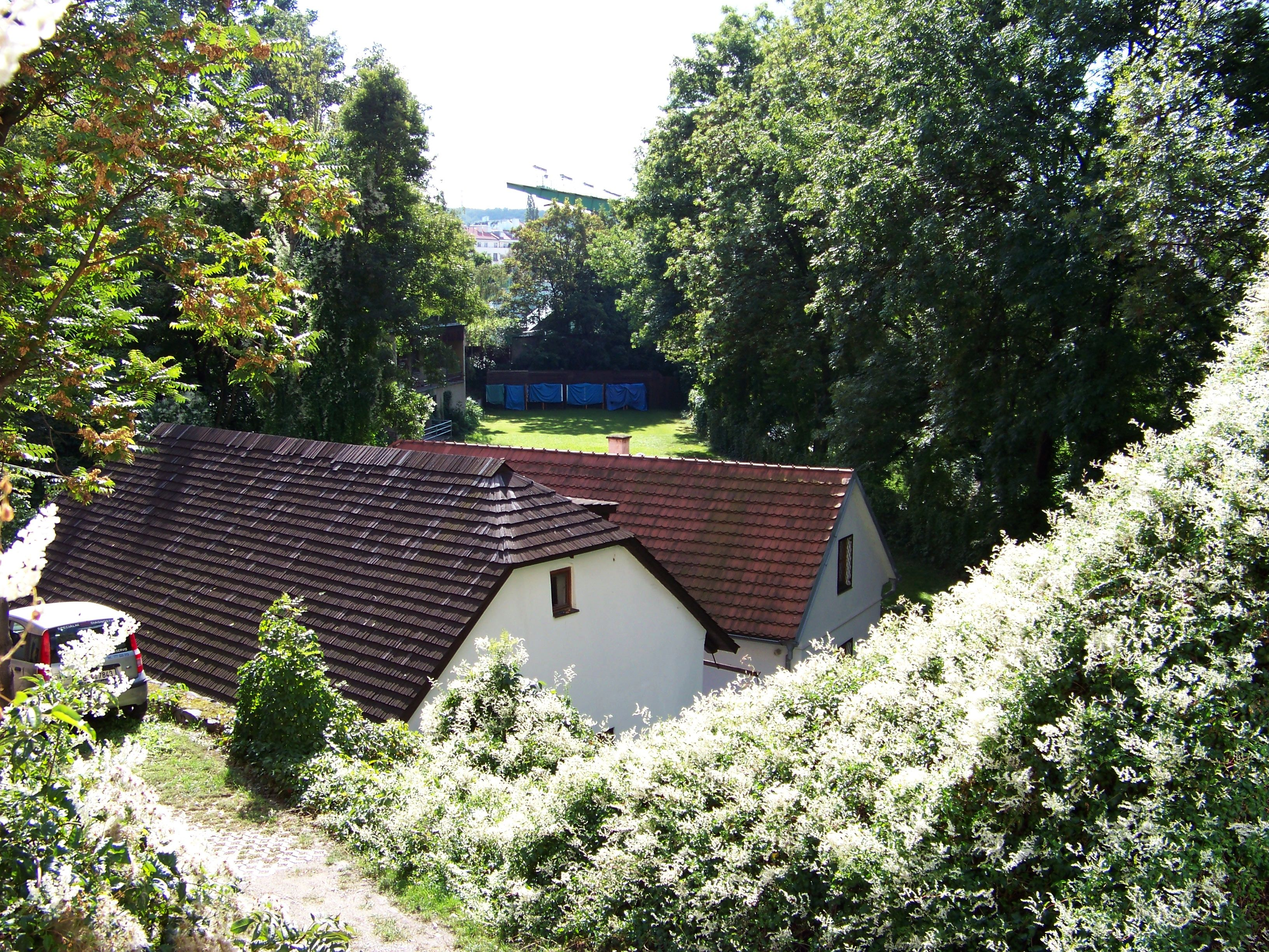 Prague-Vršovice, the Czech Republic. Pod stupni 11/8, 59/10.